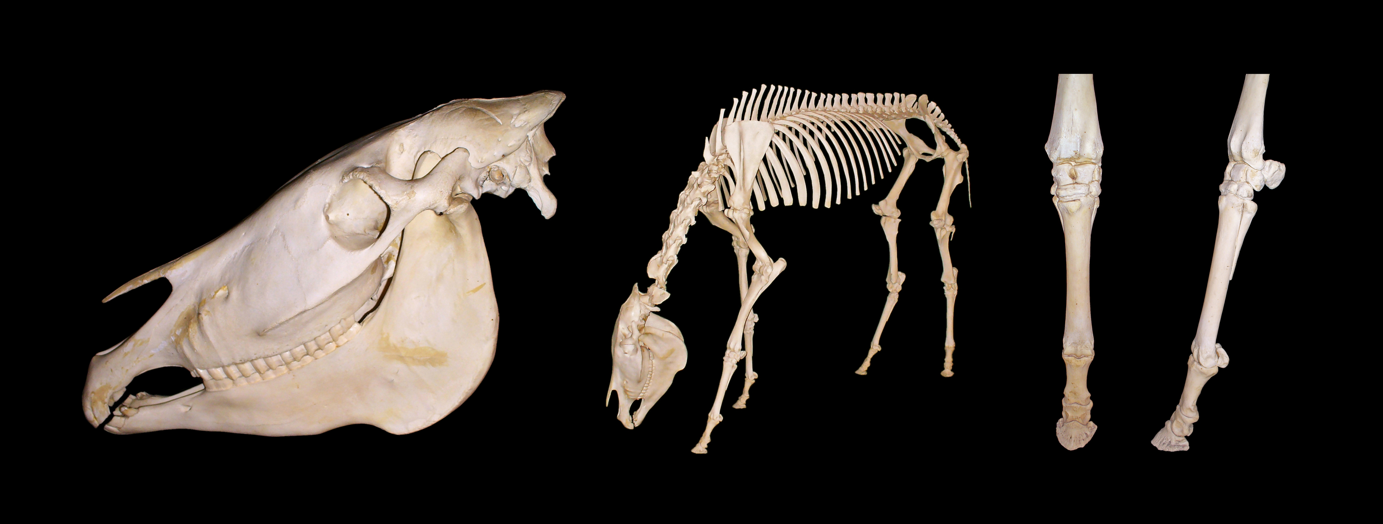 Equus grevyi, Equidae, Grévy's Zebra, Imperial Zebra. Cranium, complete skeleton, left forefoot frontal, left forefoot lateral; Staatliches Museum für Naturkunde Karlsruhe, Germany.